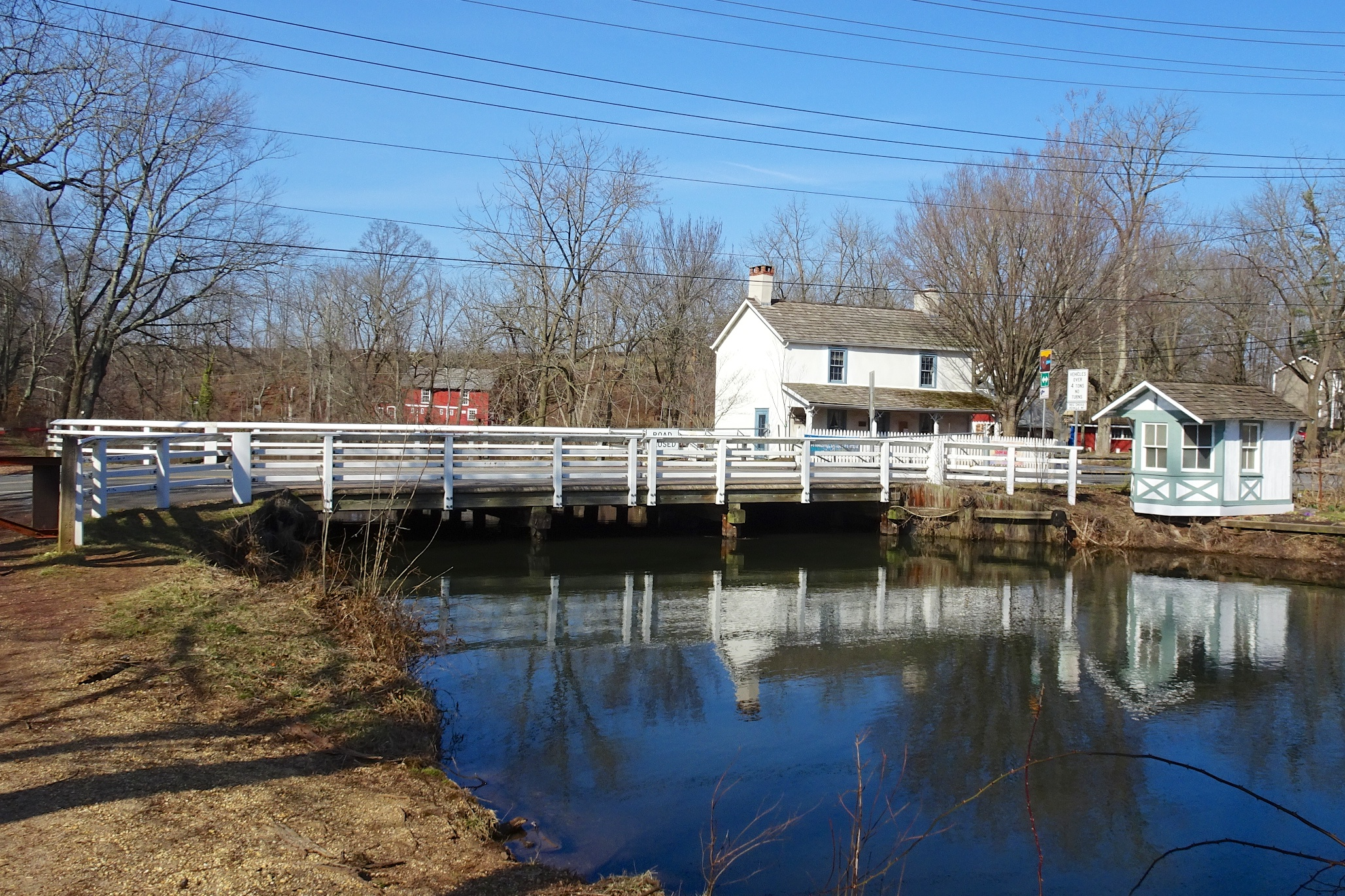 Bridge Tender's House and Bridge located in Blackwells Mills, NJ. It is along the Delaware and Raritan Canal. The small building to the right is the canal toll house, built circa 1900 date QS:P,+1900-00-00T00:00:00Z/9,P1480,Q5727902. Some buildings of Blackwells Mills are visible in the background. The red barn was once a general store and post office.